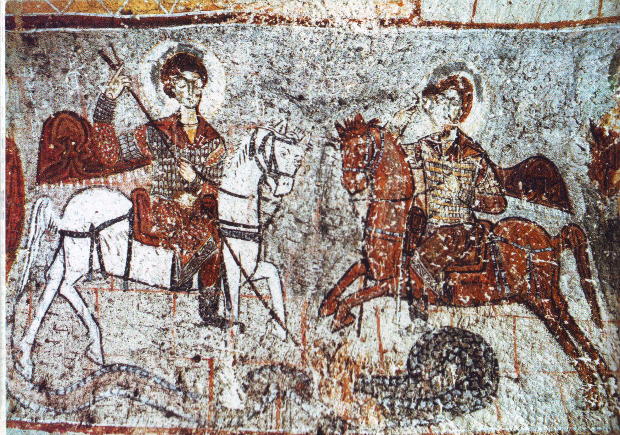 Ss. George and Theodore of Amasea, killing the dragon.